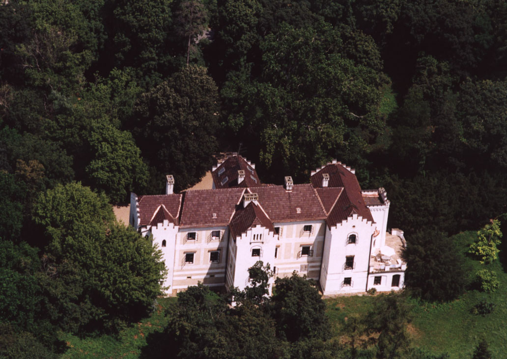 Palace - Zsennye - Hungary - Europe